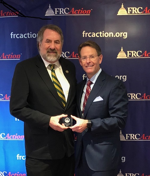 Rep. LaMalfa received the True Blue Award from the Family Research Council. Congressman Doug LaMalfa is a lifelong farmer representing California’s First Congressional District, including Butte, Glenn, Lassen, Modoc, Nevada, Placer, Plumas, Shasta, Sierra, Siskiyou and Tehama Counties.